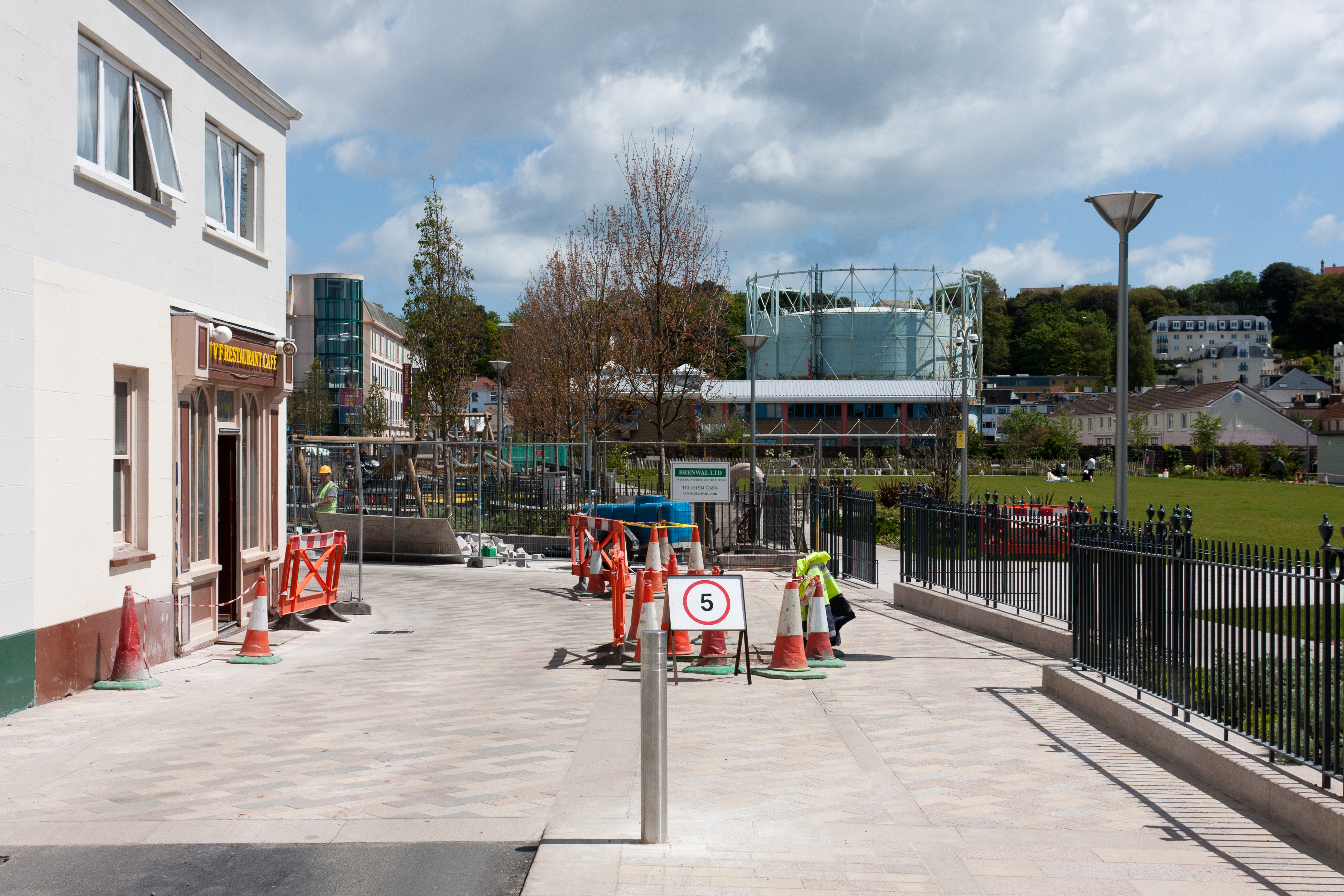 Gas Place, Saint Helier.